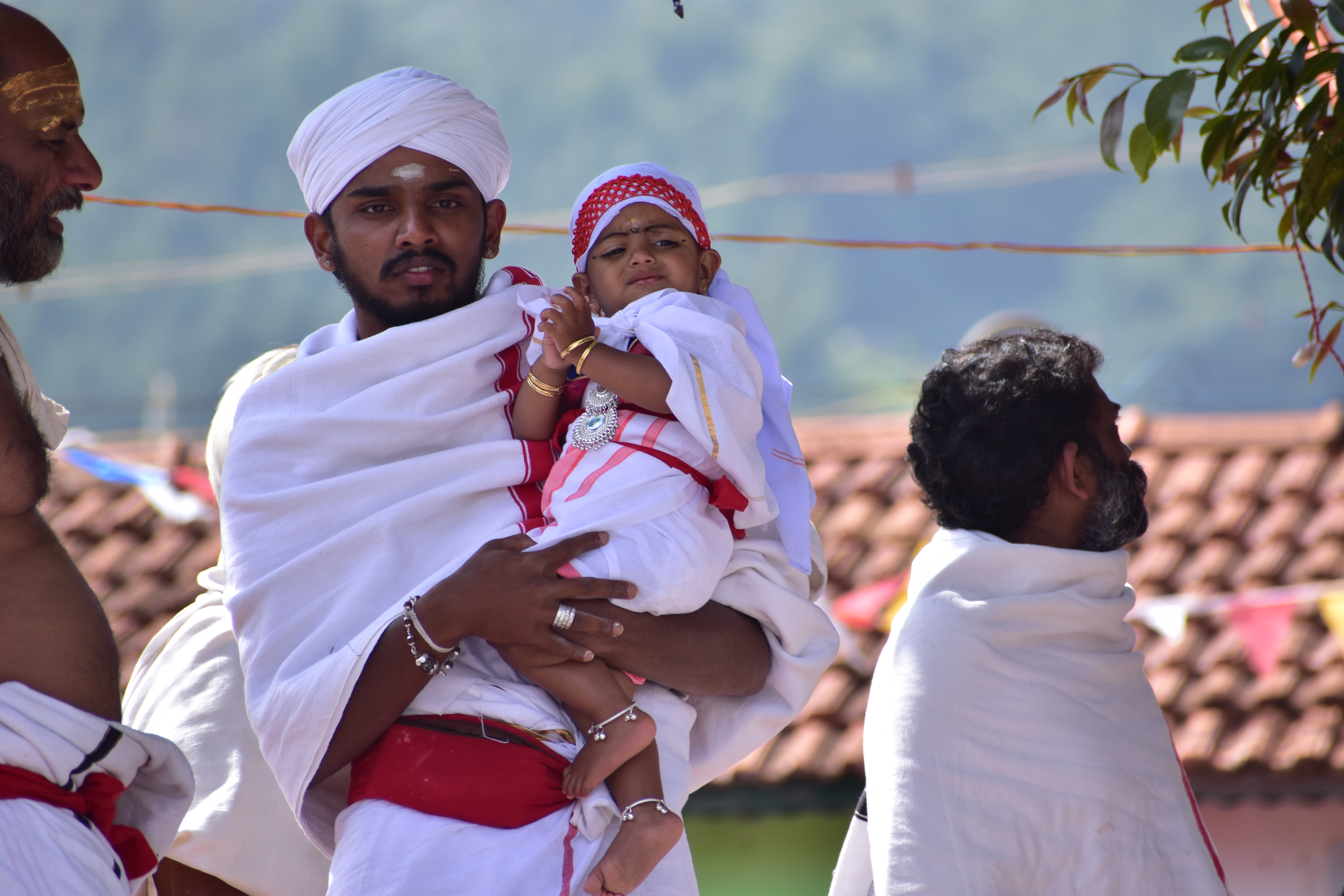 Traditional baduga festival(Hethae Habba) celebrated once in every year during the month of late December or early January is one of the grand festival of badaga community living in the hills of western ghats of India. This photo has been taken in the country: India